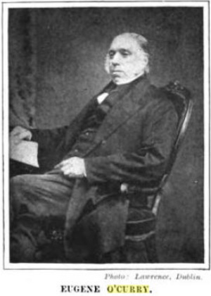 Portrait of Eugene O'Curry